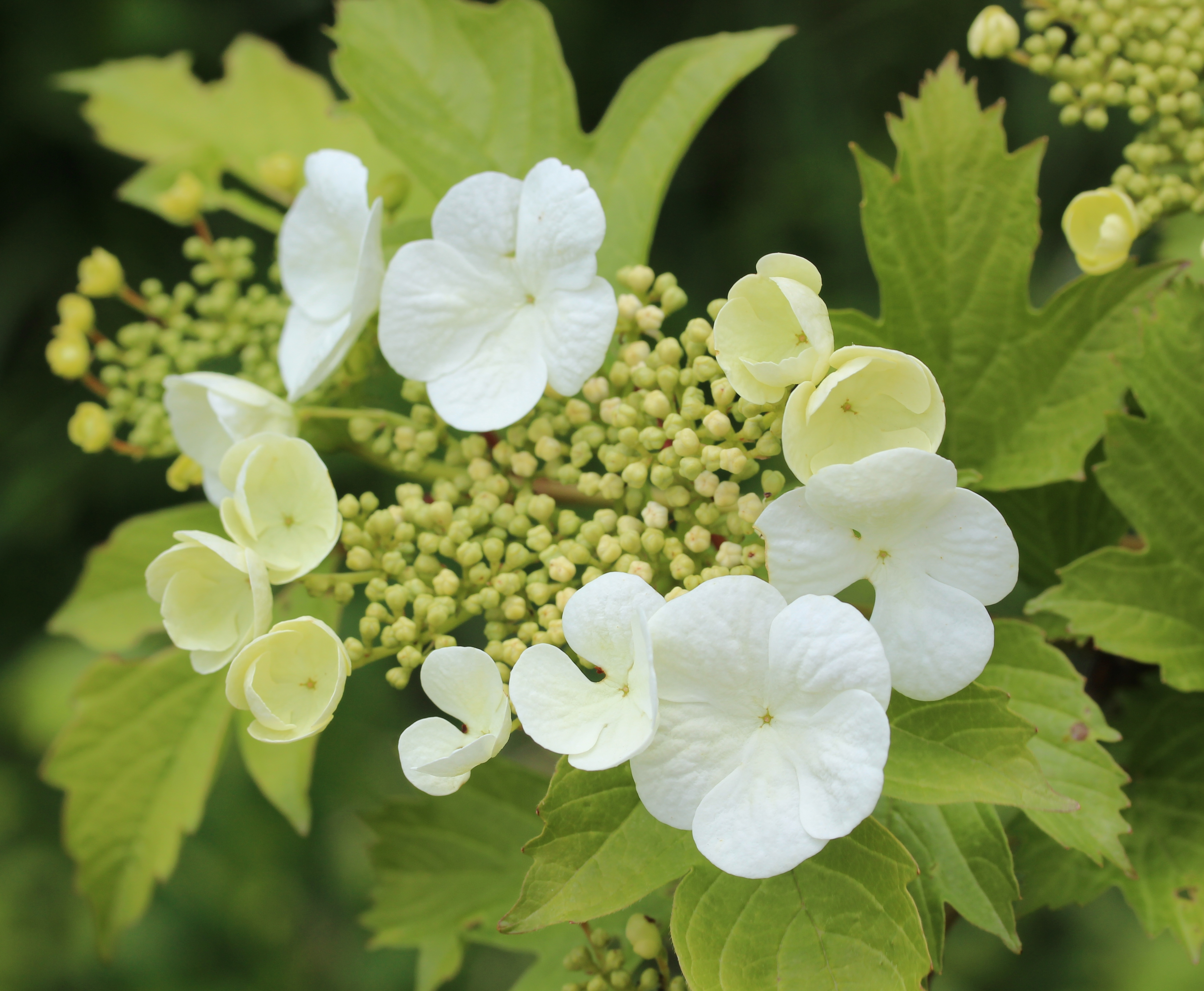 Viburnum opulus var. sargentii, in Maibara, Shiga prefecture, Japan.